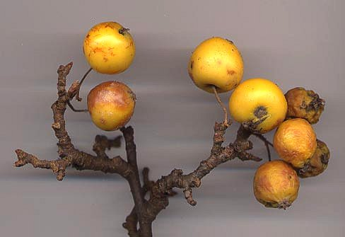 Crabapple fruit 'Golden Hornet' - photo MPF